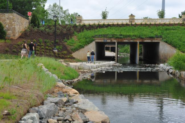 The Little Sugar Creek Greenway in Charlotte, North Carolina, looking south toward the E 4th Street overpass.